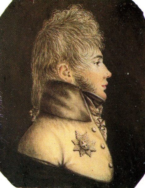 Mihail Petrovich Dolgorukov (1780-1808)